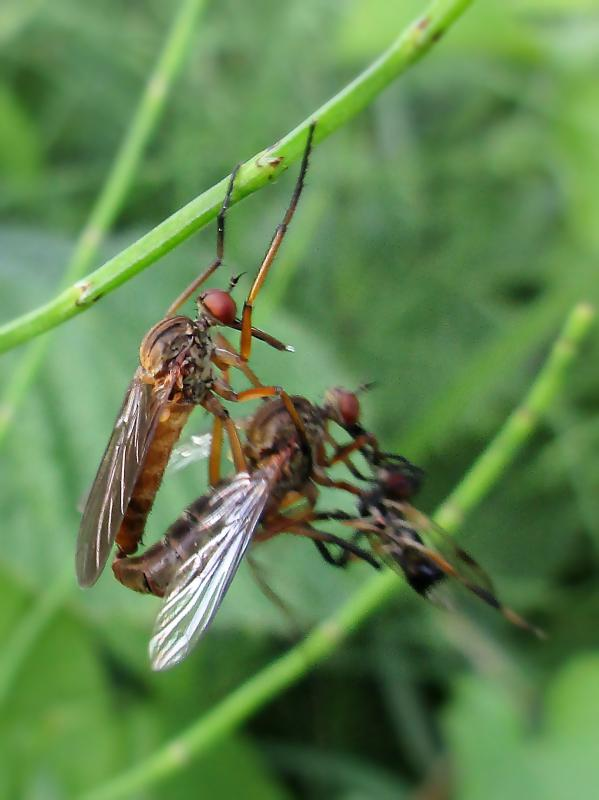 Empis livida (A dance fly), Elst (Gld), the Netherlands